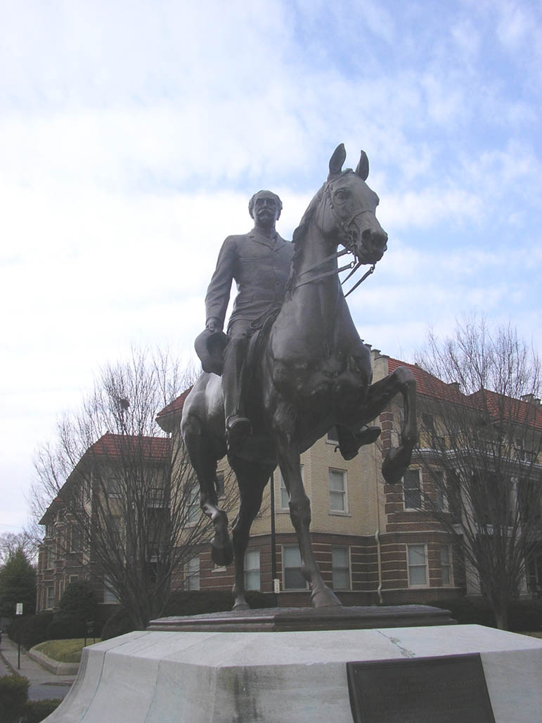 Statue of Castleman astride American Saddlebred mare, Carolina, in Louisville, Kentucky.